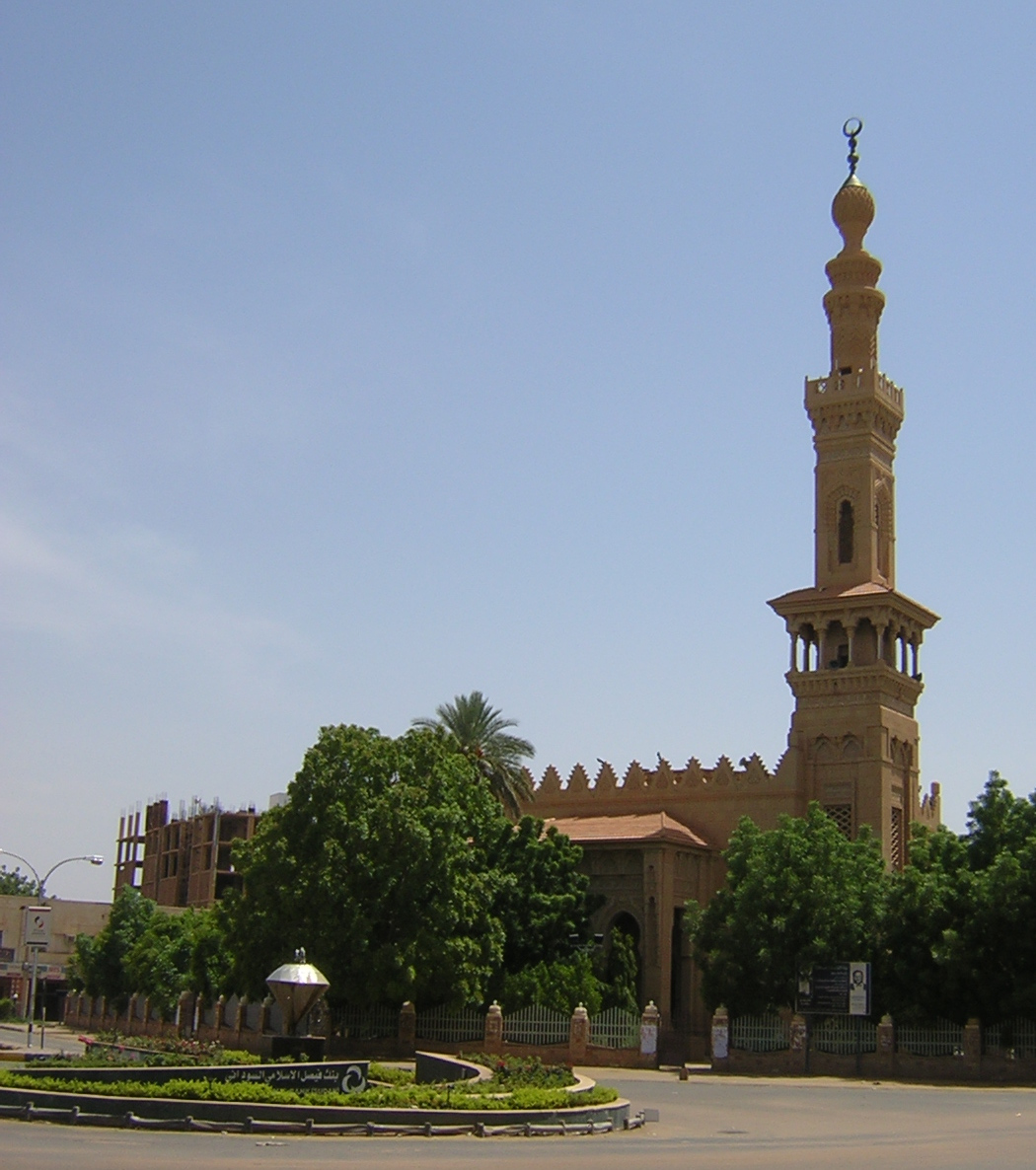 Al-Farouq mosque, Khartoum, Sudan.